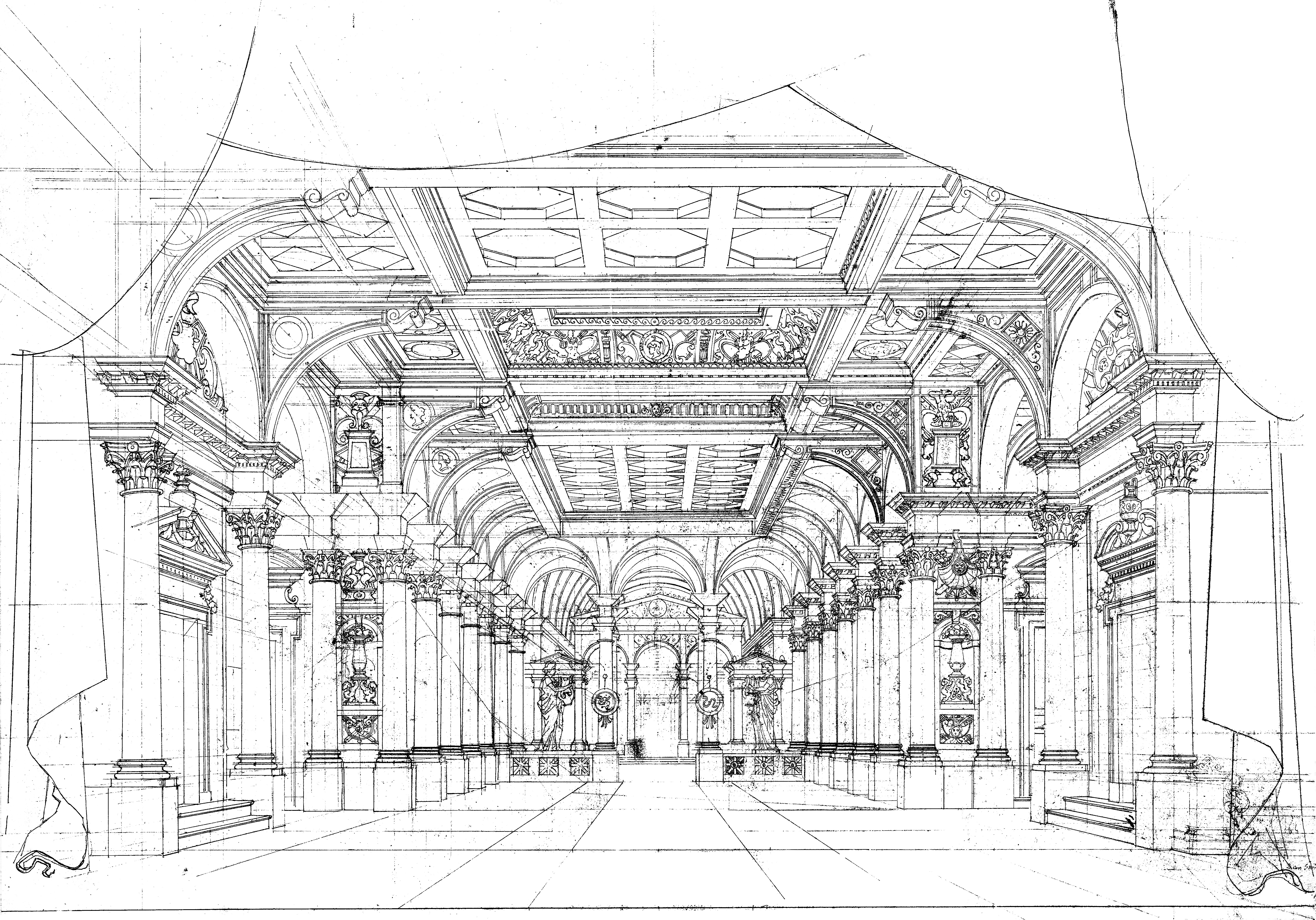 Rossini - Zelmira - Paris 1826 - esquisse de décor de l'acte I - salon magnifique dans le palais du roi de Lesbos